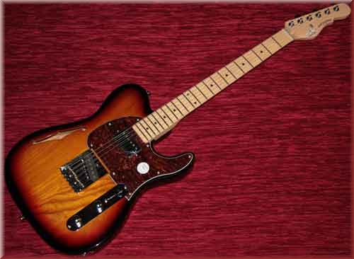 G&L ASAT Classic Bluesboy Semi Hollow T-Style